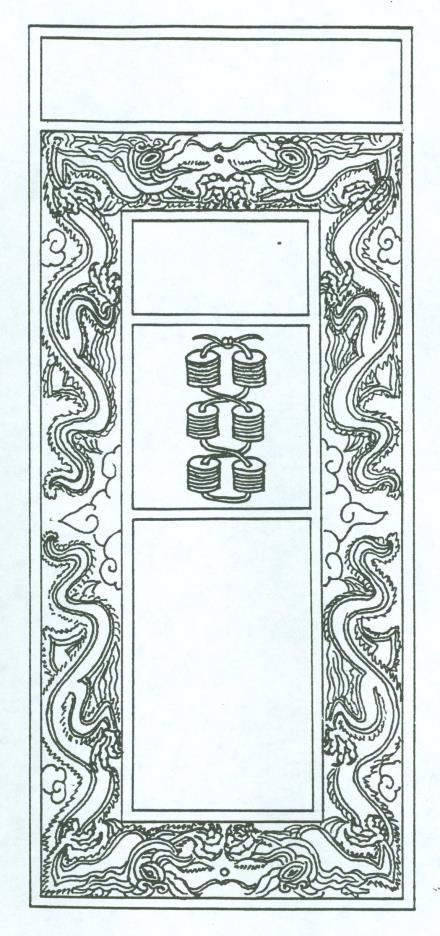 A replica of a Đại Trần Thông Bảo Hội Sao (鈔會寶通陳大) with the denomination of 1 mân (緡, "String of cash coins"), or 600 cash coins.